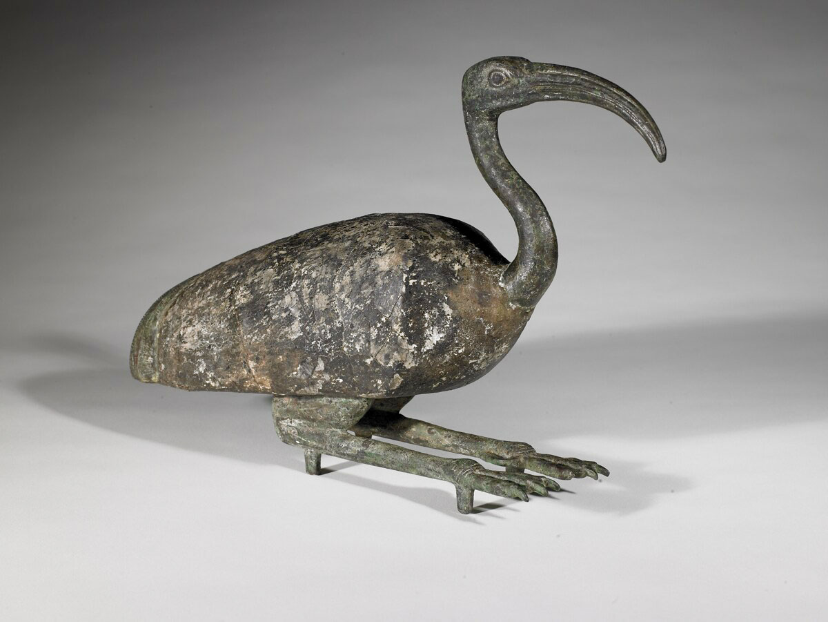 A wooden and bronze statue of an ibis from the Late Period of Egypt.